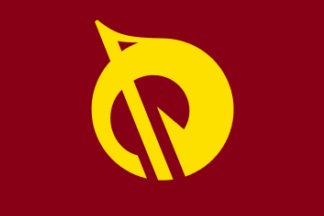 Flag of Yakage Okayama